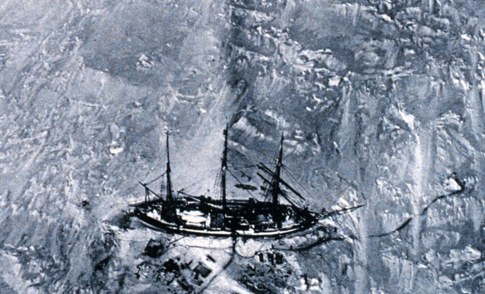 Luftaufnahme Gauss (NOAA) Quelle: Lizenz: PD Beschreibung: Aerial view of the GAUSS in the ice during the German Antarctic Expedition. This picture was obtained from a balloon and is one of the first aerial photographs of the Antarctic environment. Image ID: corp2854, NOAA Corps Collection